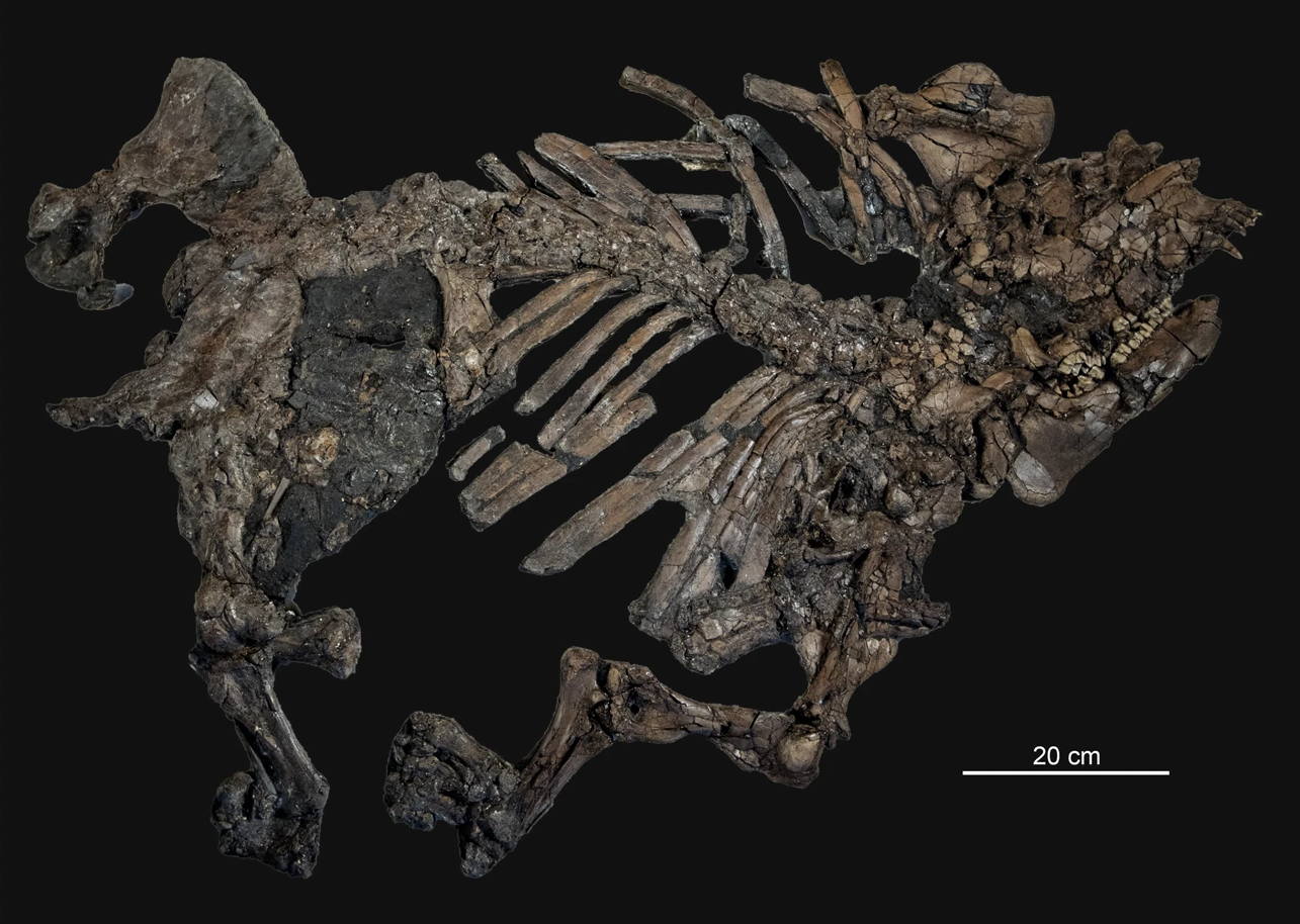 Lophiodon, Skeleton of Lophiodon remensis (GMH VII-1-1952) from the Geisel Valley, Saxony-Anhalt, Germany, Middle Eocene